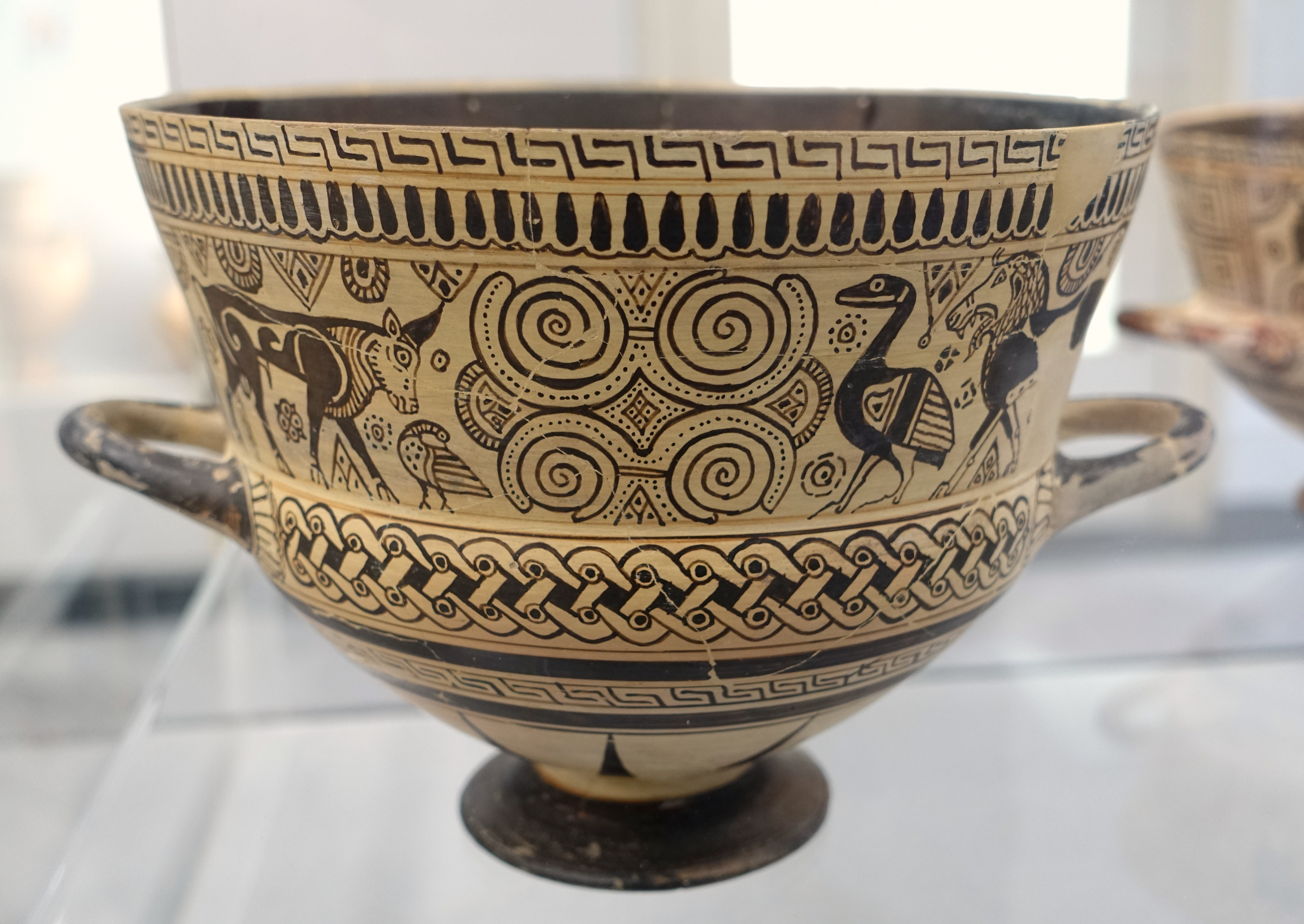 Exhibit in the Martin von Wagner Museum - Würzburg, Germany.